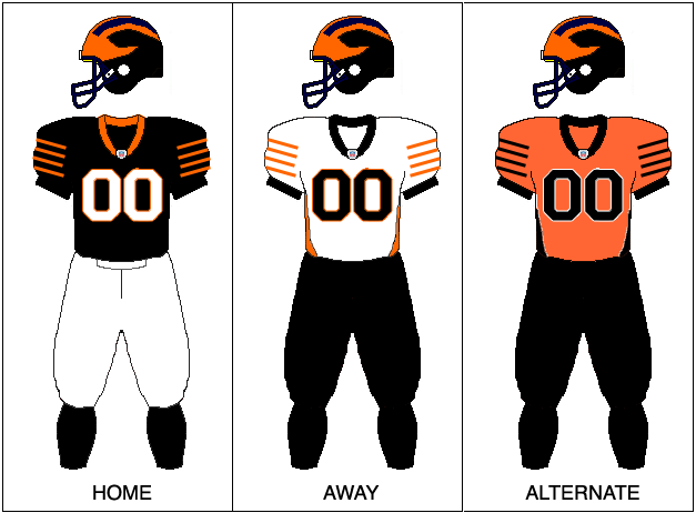 2009 uniforms of the Princeton University varsity football team.